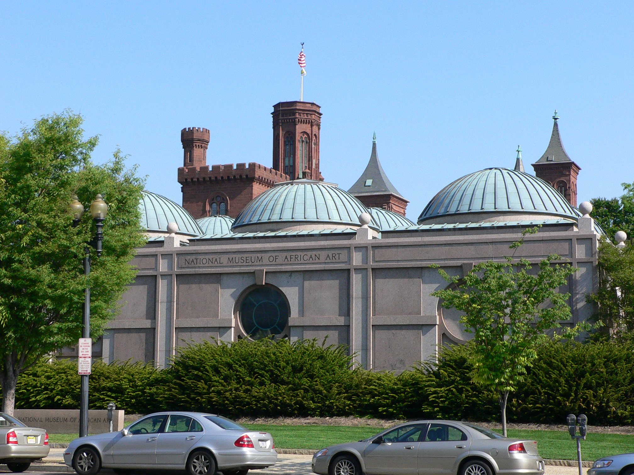 National Museum of African Art